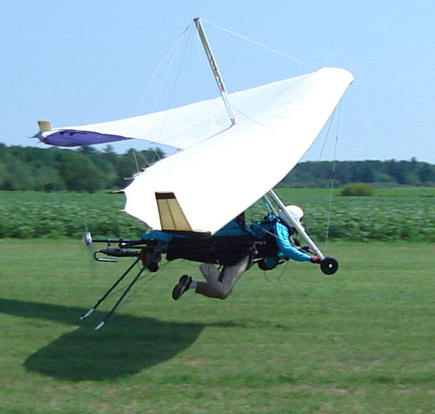 Foot-launching a powered hang glider.